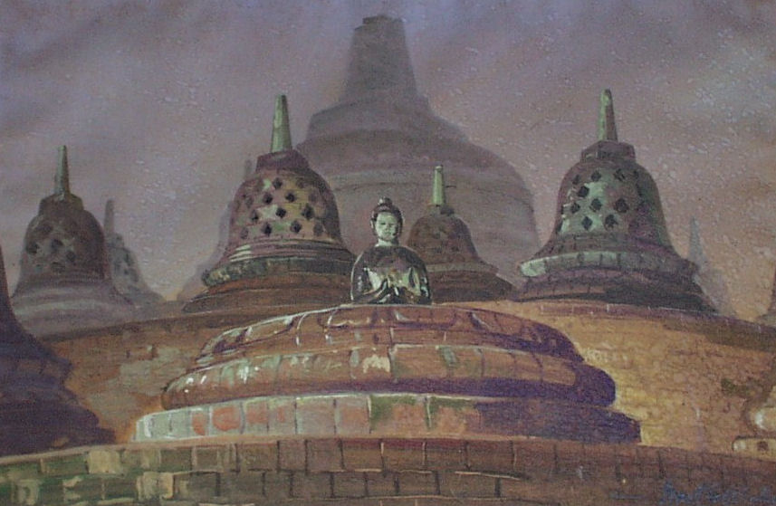 Helfferich collection in the East Asia Institute of Ludwigshafen in Germany